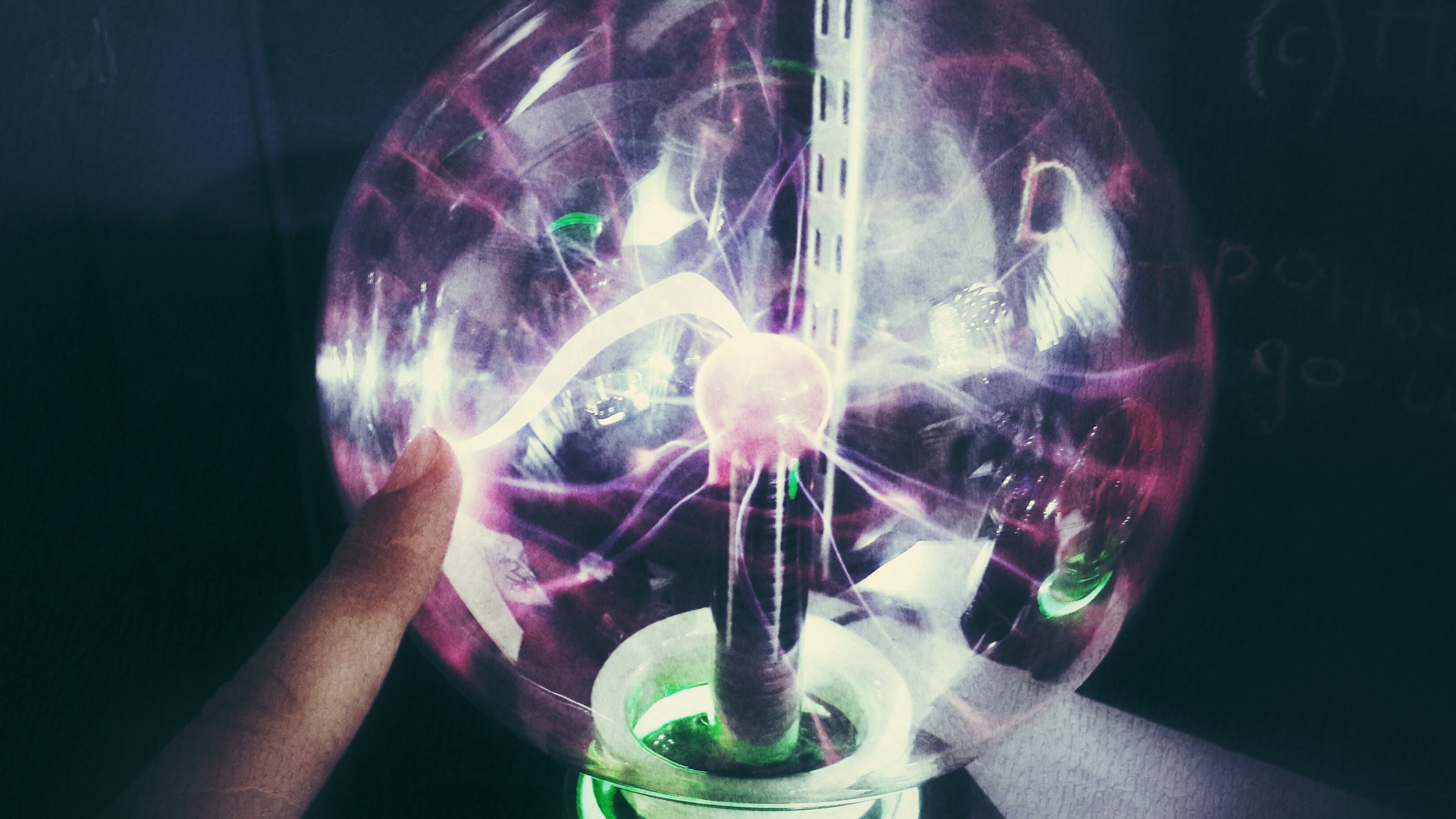 Nikola Tesla's Plasma lamp in conducting effect of hand